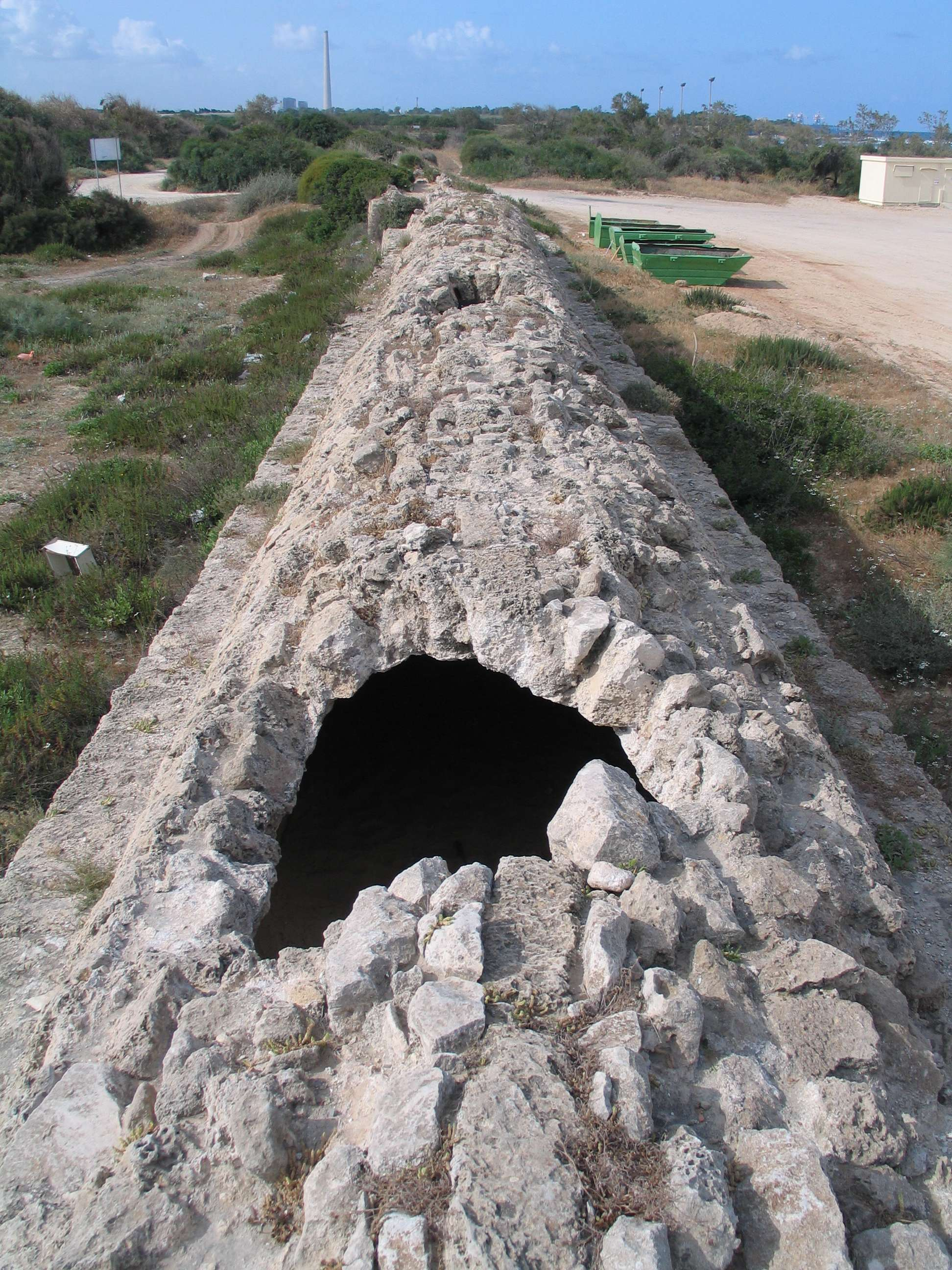 Caesarea Maritima, Israel. Low-level aqueduct.